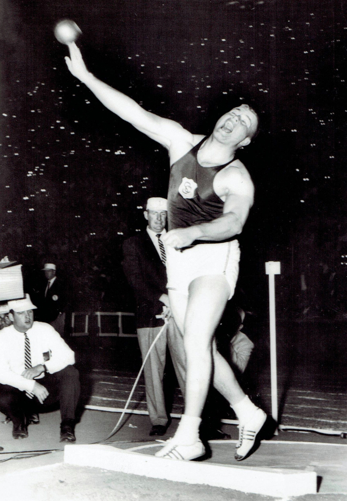 1960 Wire Photo USC Trojans Dallas Long breaks shot put record at LA Coliseum